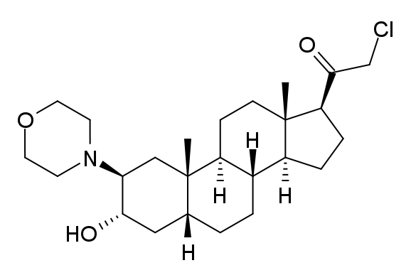 Structure of ORG20599